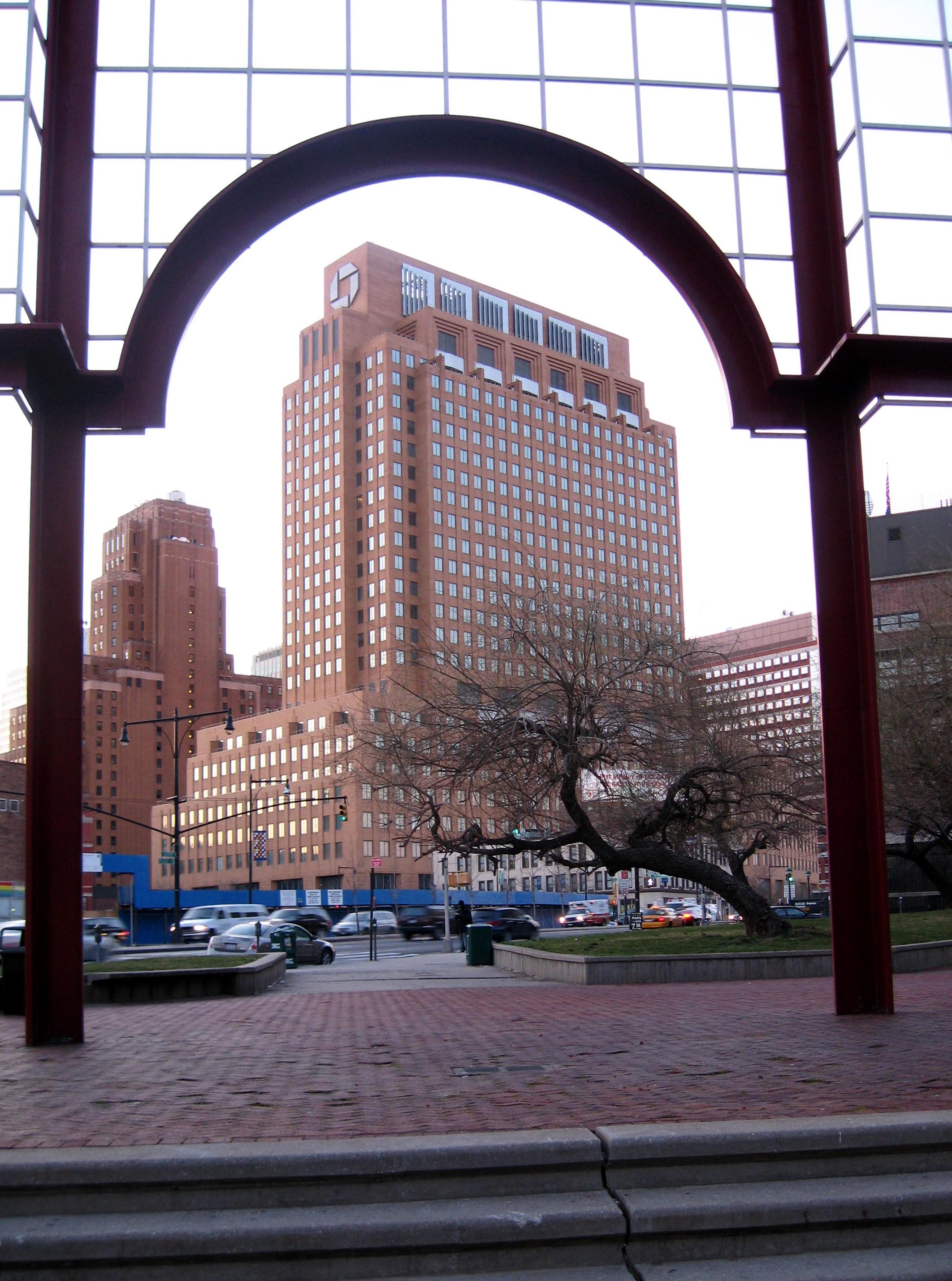 JPMorgan Chase building in MetroTech Center, Brooklyn. I took this picture facing northwest from under a Long Island University decorative arch on the east side of Flatbush Avenue Extension near dusk of a sunny day in early Spring.